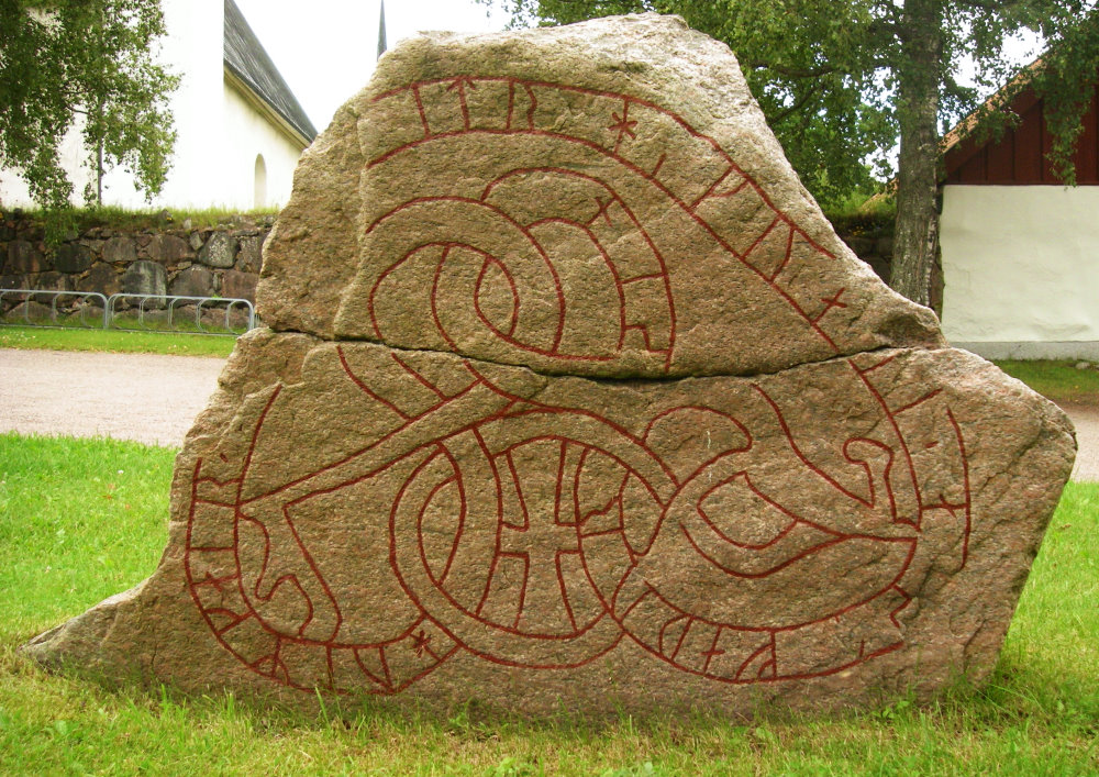 runic stone Upplands runinskrifter U1050